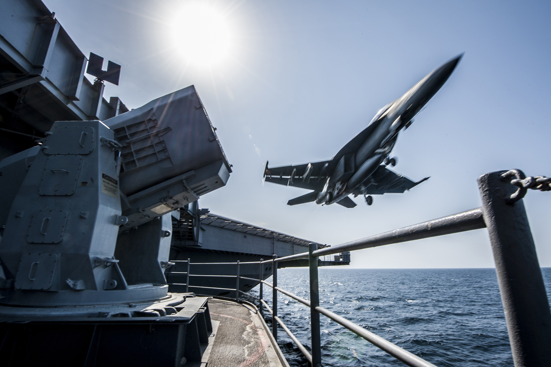 An F/A-18 Super Hornet launches from the flight deck of the Nimitz-class aircraft carrier USS Carl Vinson (CVN 70) as the ship conducts flight operations in the U.S. 5th Fleet area of operations supporting Operation Inherent Resolve. The Carl Vinson Carrier Strike Group is currently deployed to the area supporting maritime security operations, strike operations in Iraq and Syria as directed, and theater security cooperation efforts in the 5th Fleet AOR. (U.S. Navy photo by Mass Communication Specialist 2nd Class Alex King/Released)